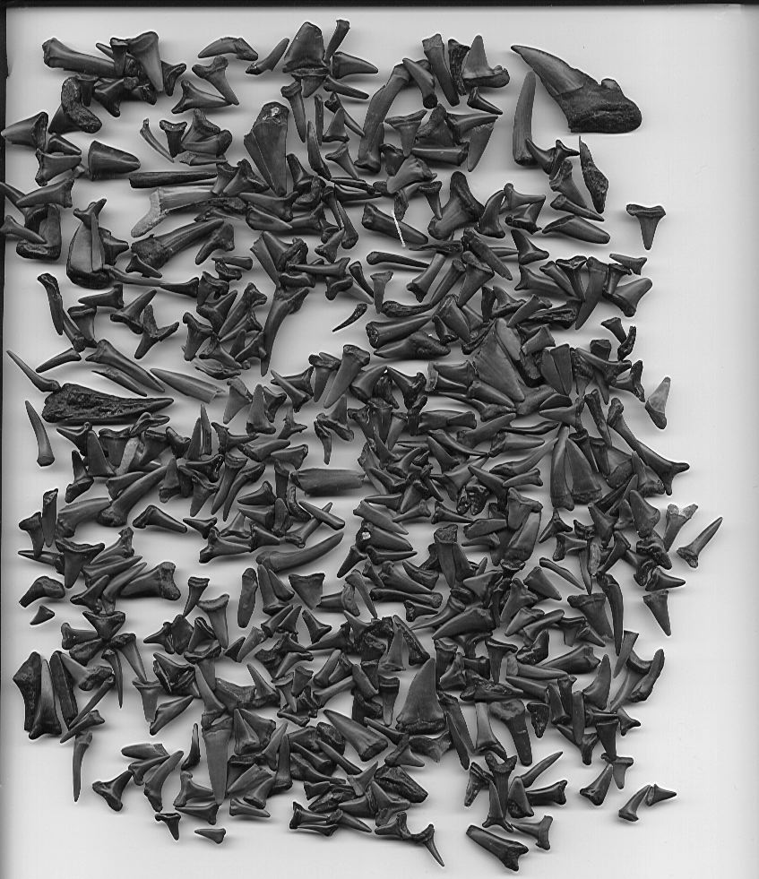 Sharks teeth collected and scanned by me User Debivort 2001.